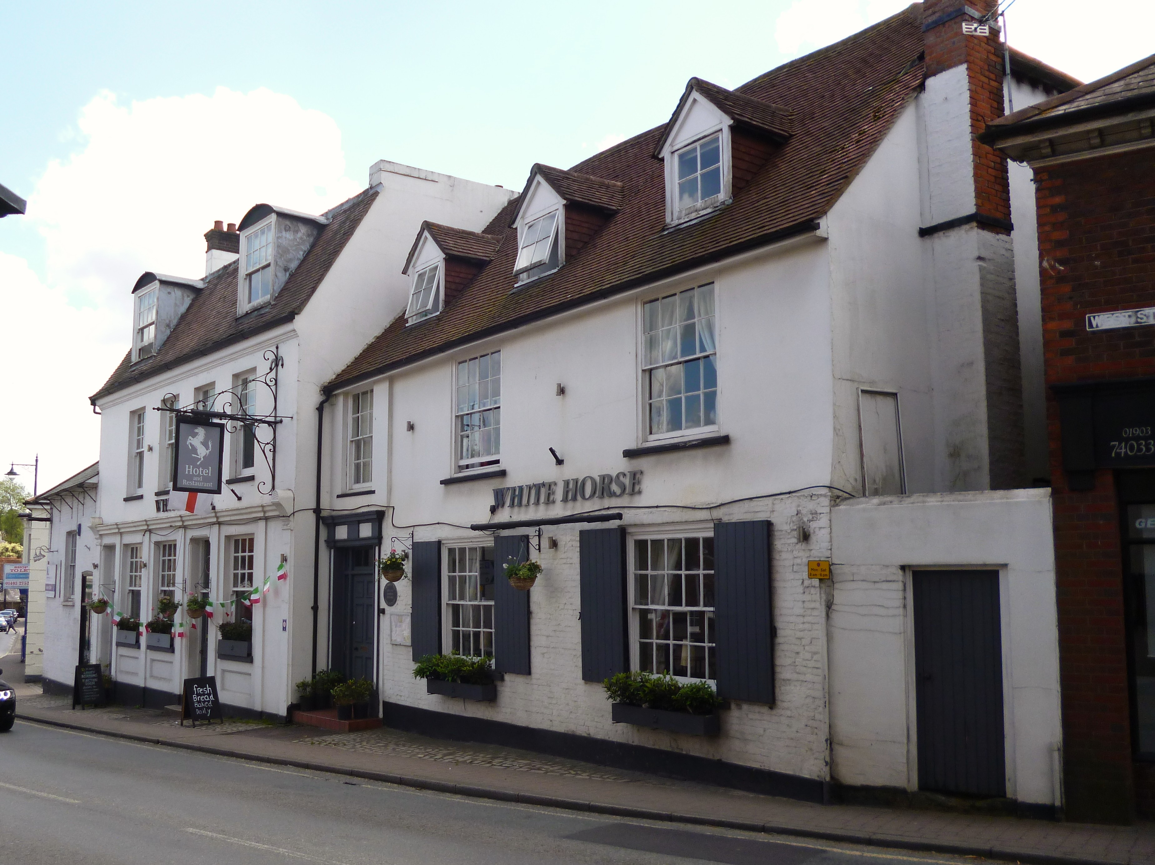 The White Horse Inn, Storrington, West Sussex